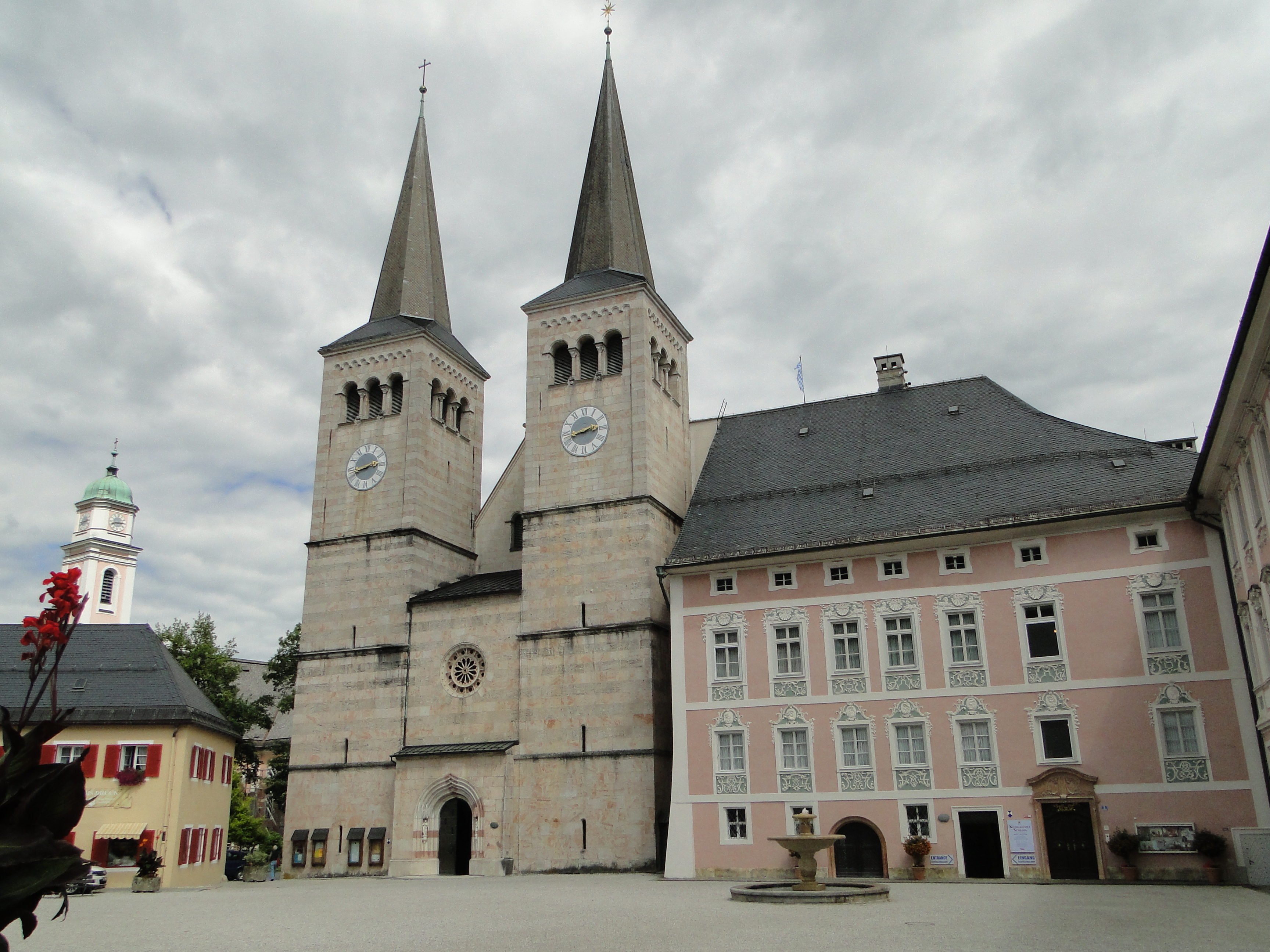 Church & Castle of Berchtesgaden